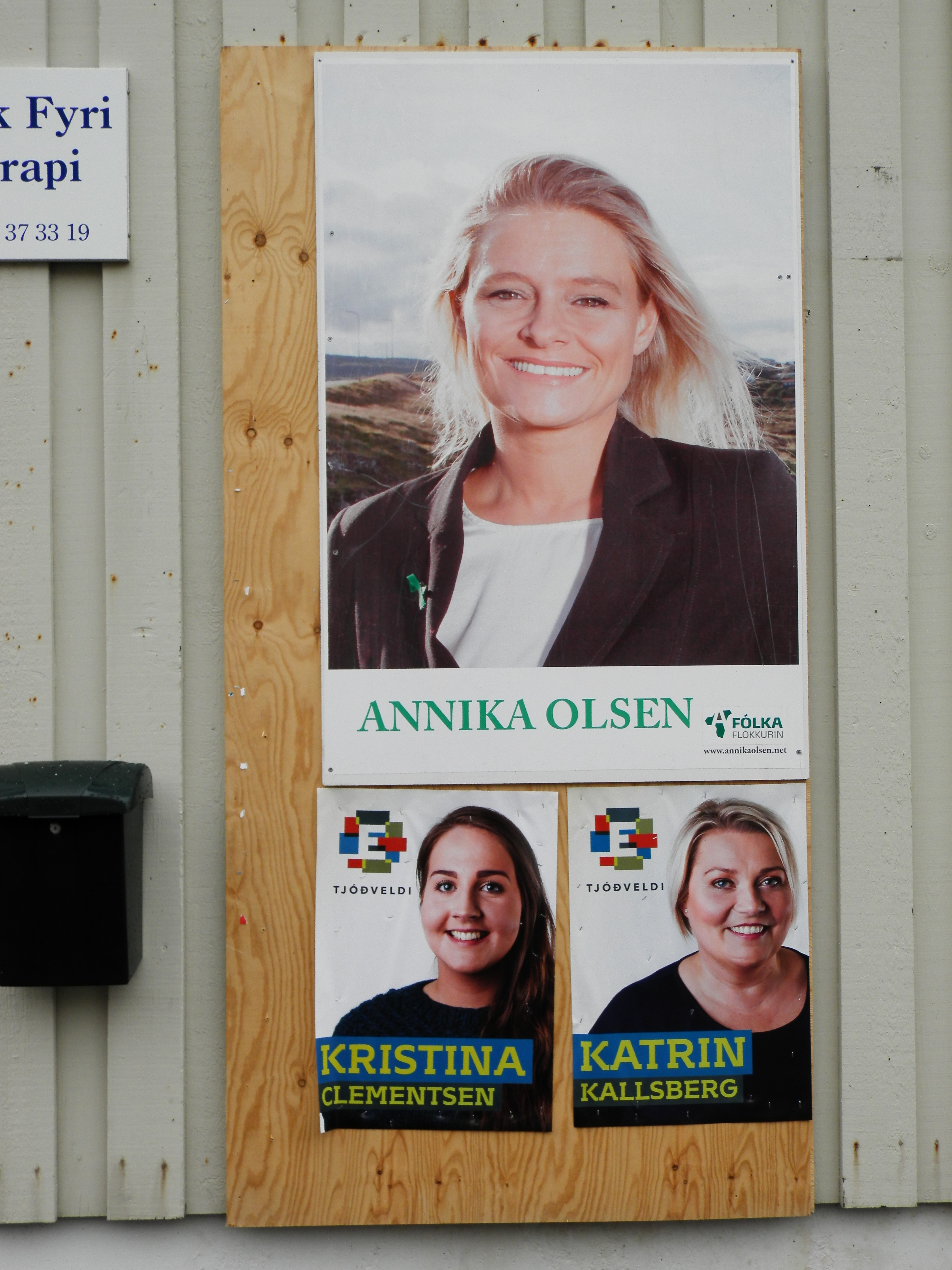 Election posters in Vágur, Faroe Islands four days before the parliamentary election 1 September 2015.